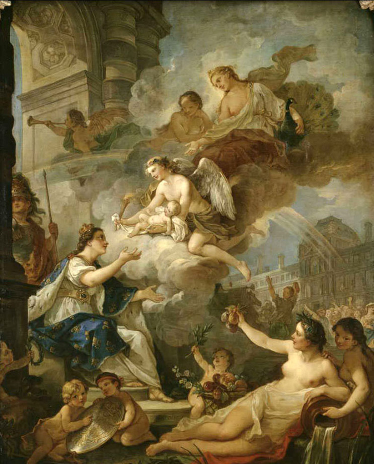 Marie-Zéphyrine of France (1750–1755), daughter of the Dauphin Louis and Marie Josèphe of Saxony